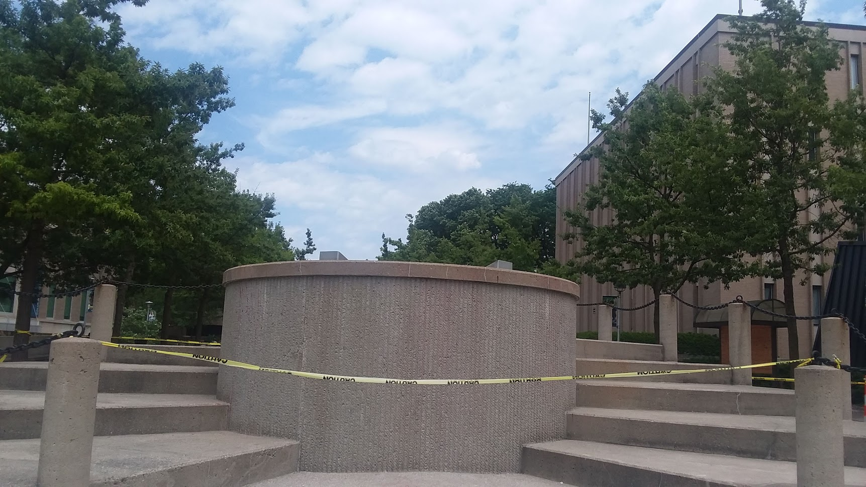 This is a spot on the middle of campus where students like to gather. It once contained a statue of Columbus. The statue was removed in June 2020 leaving an empty spot.